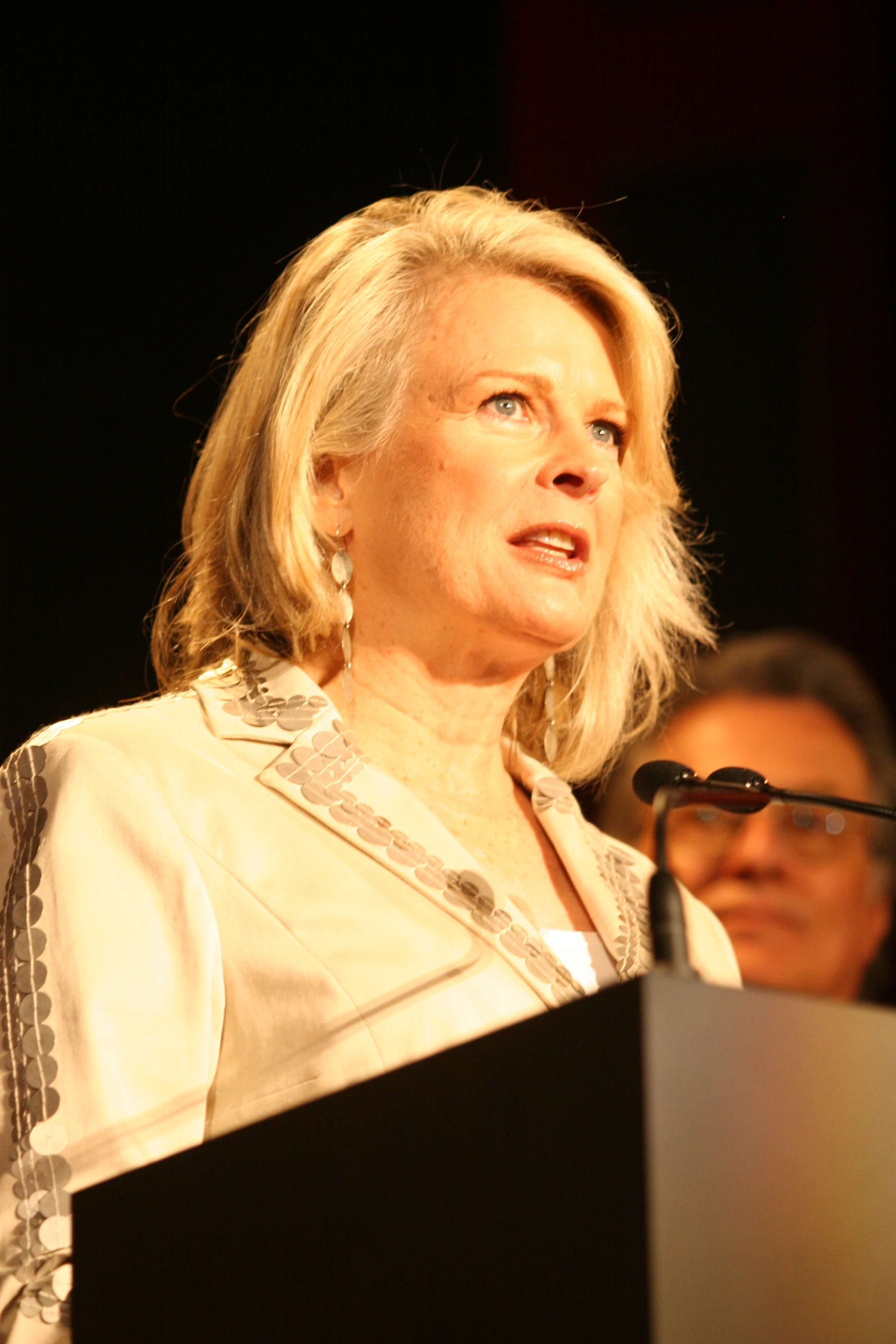 65th Annual Peabody Awards Luncheon Waldorf-Astoria Hotel New York, NY USA June 5, 2006